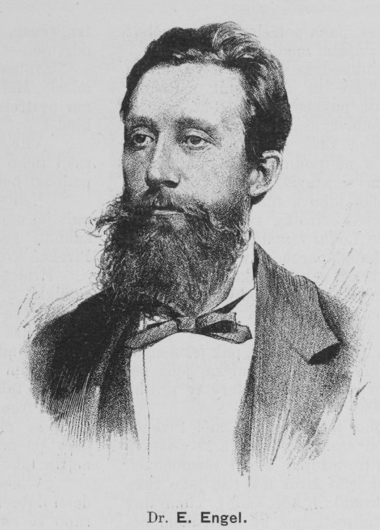 Portrait of Emanuel Engel (1844 - 1907), Czech politician (deputy in Austrian "Reichsrat").